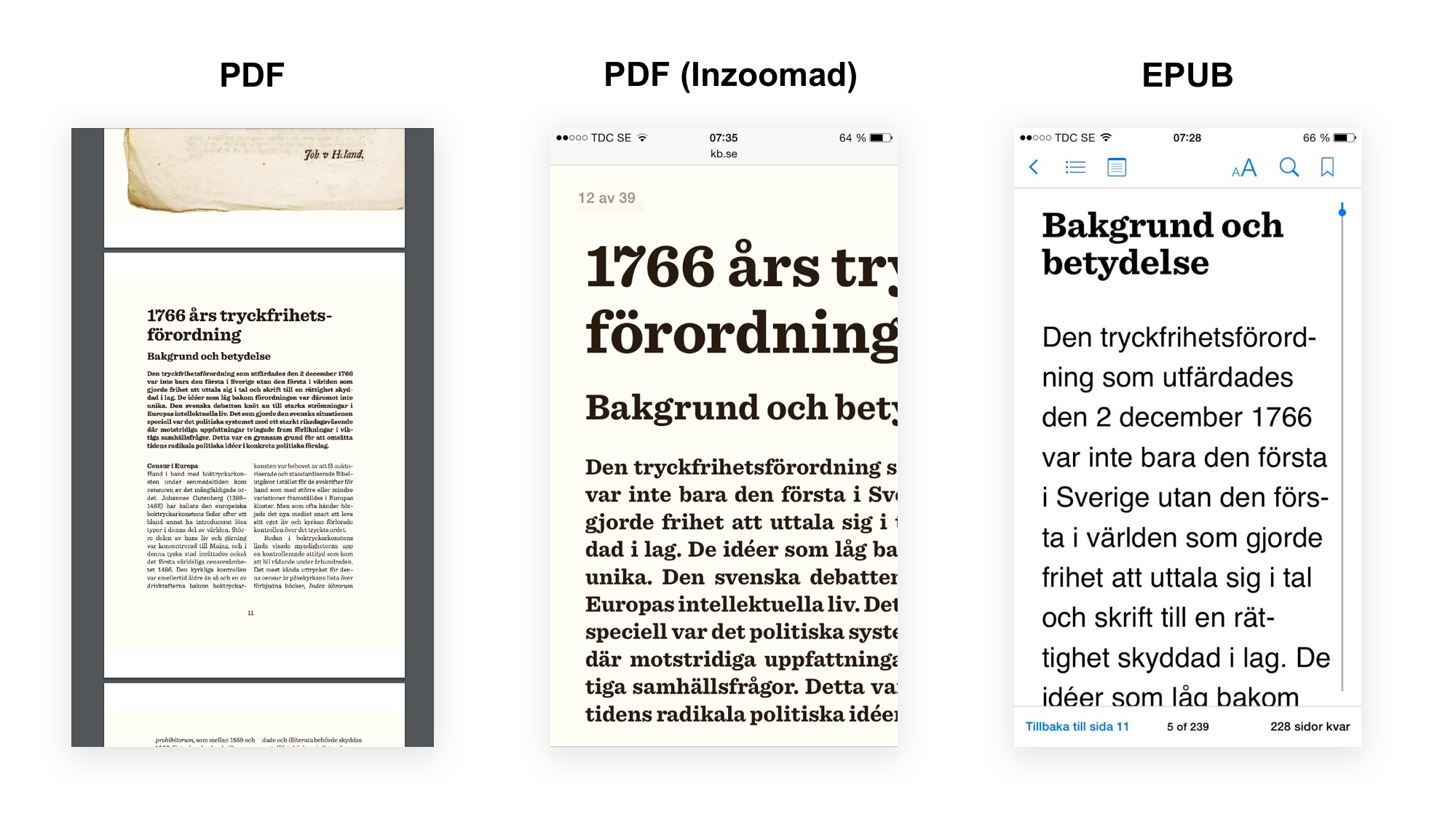 A comparison of how PDF and EPUB versions of a document is displayed on a small screen.